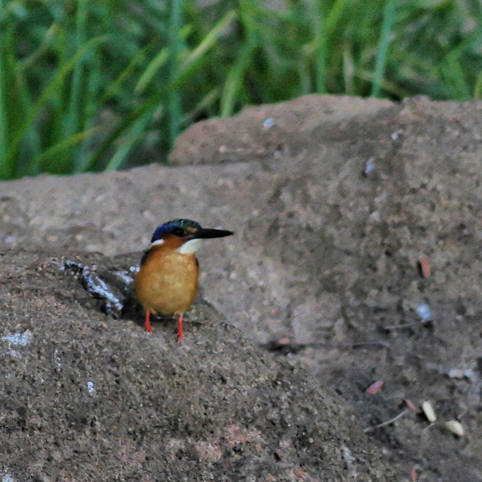 Madagascar Kingfisher (Alcedo vintsioides)